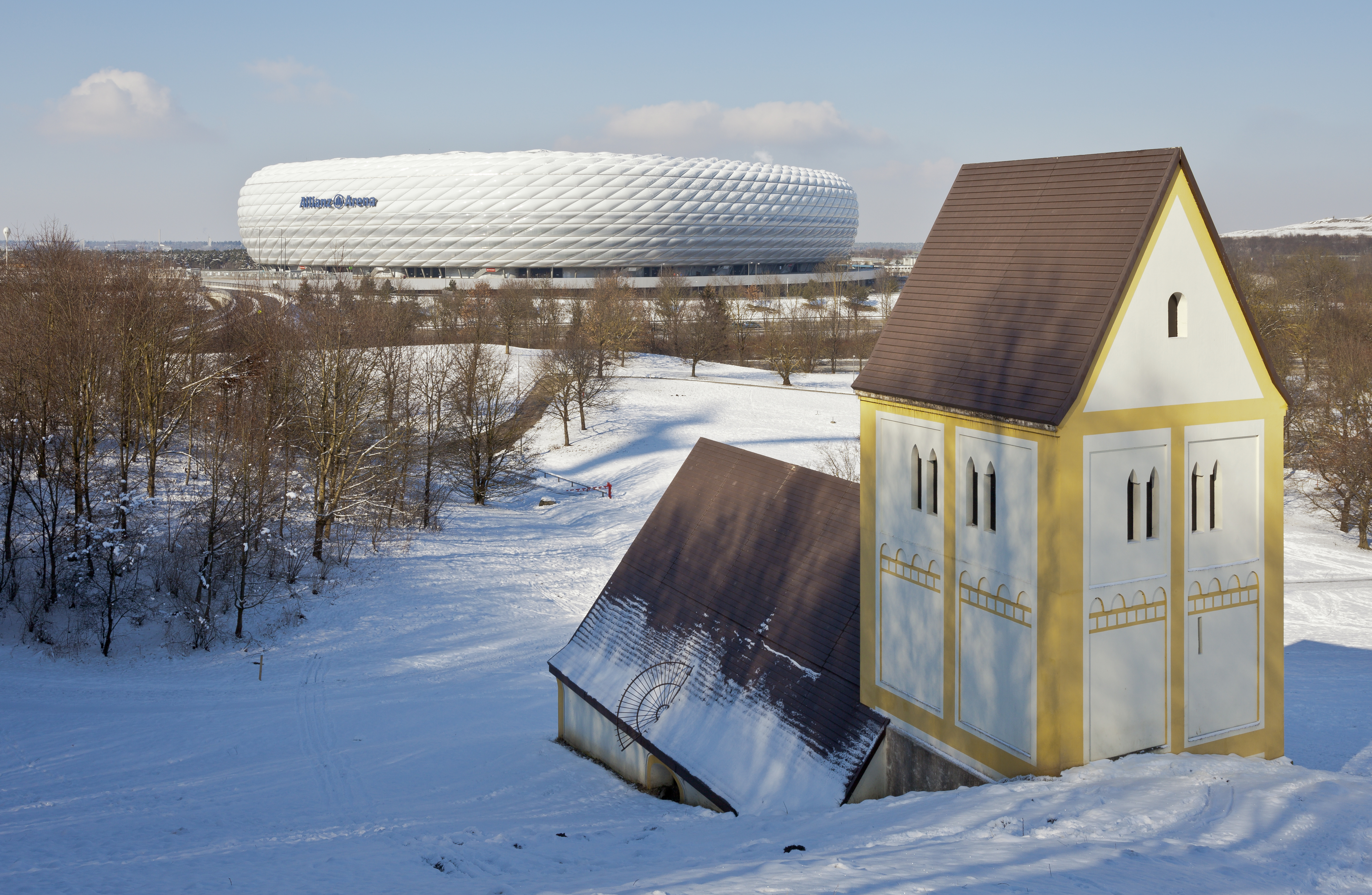 Allianz Arena and architectural sculpture "Sunken Village" by Timm Ulrichs (replica of the Holy Cross Church), Munich, Germany